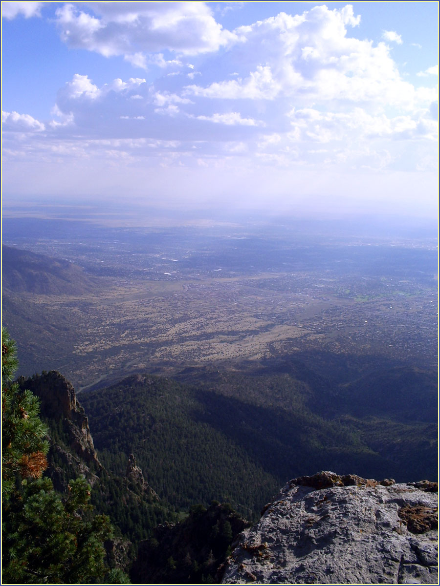 So if you go up to the top of Sandia Peak (some 10,000 feet), this is what you see: The Albuquerque Basin.